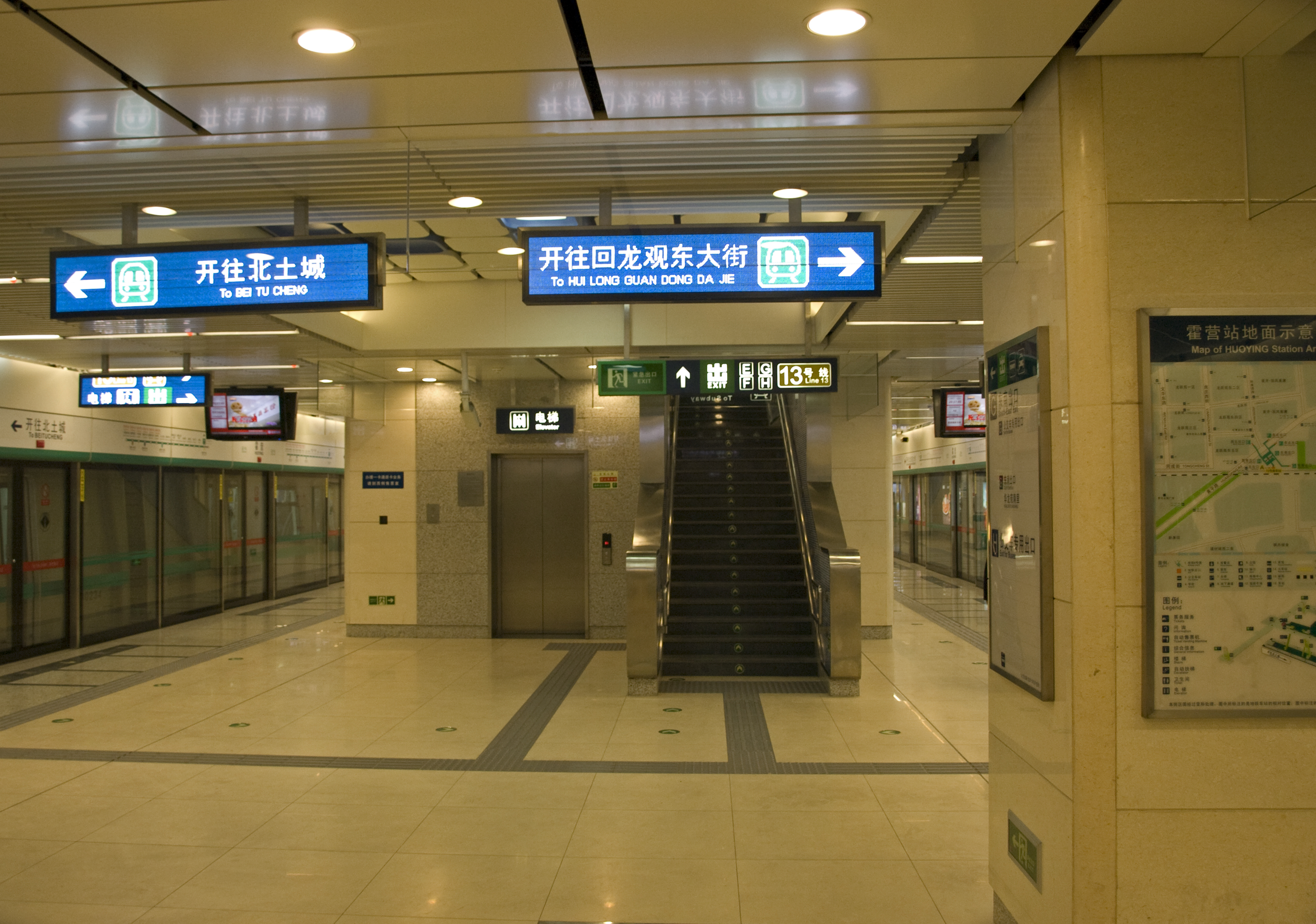 Huoying station, line 8, Beijing Subway